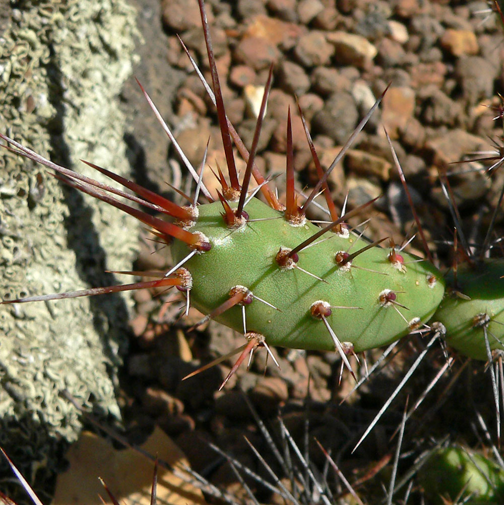 Cumulopuntia fulvicoma at the University of California Botanical Garden, Berkeley, California